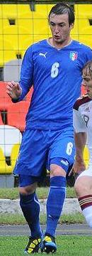 Luca Caldirola